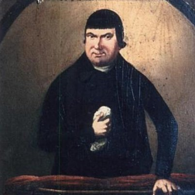 William Huntington SS The picture is from his Providence chapel in Lewes in Sussex. The picture was done in his lifetime. Its on page 242 and described on p77.